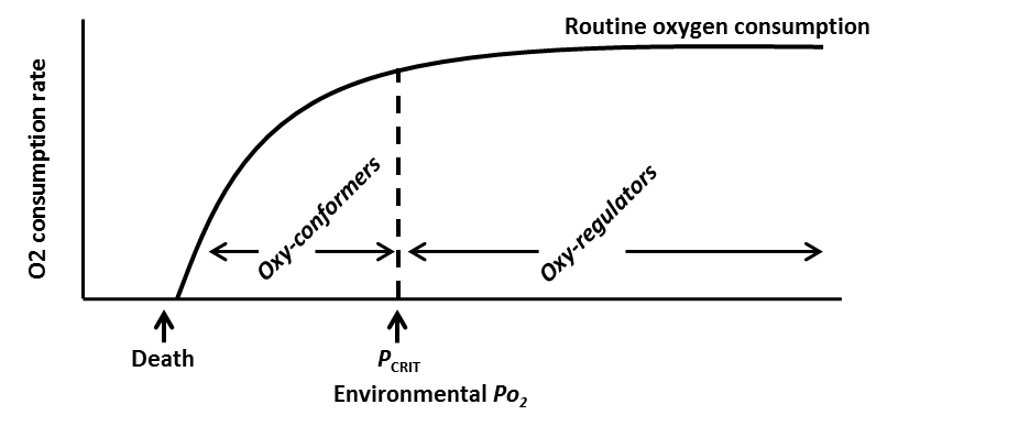 Oxygen consumption rate decreasses with decreasing environmental oxygen tension(PO2) when PO2 Pcrit.